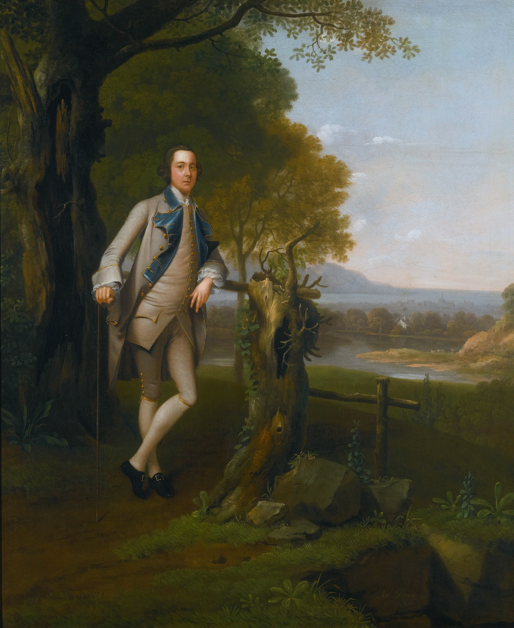 Sir John Shaw, 4th Bt. (1728-1799), of Eltham Lodge oil on canvas 76.2 x 63.5 cm signed b.r.: Artr: Devis. / fe. 1757